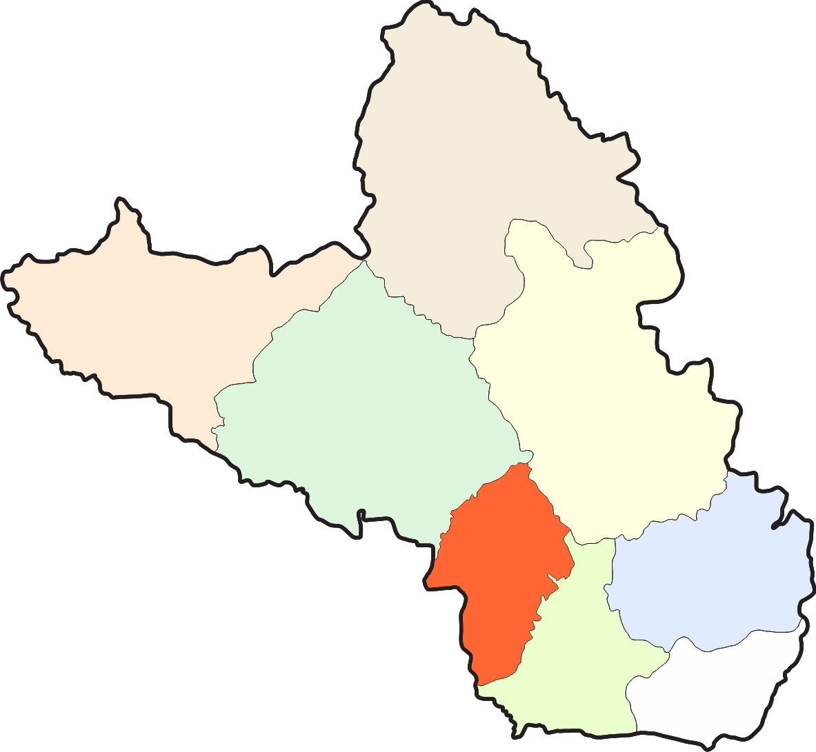 Planned Bardóc-Miklósvár Seat